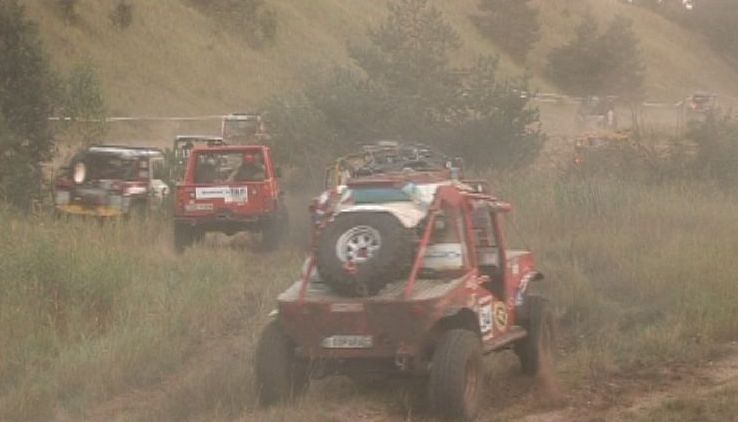 Off-road